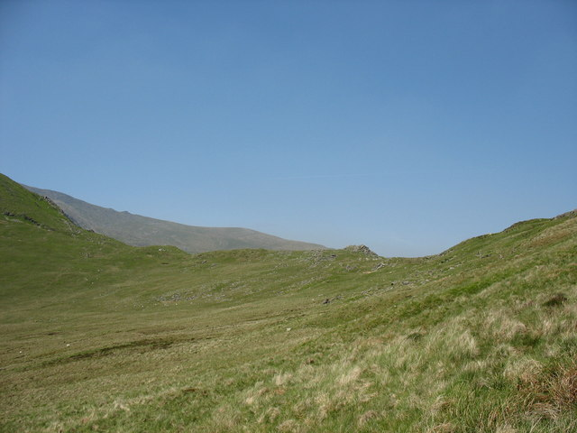 Bwlch y Tri Marchog. The Pass of the Three Knights.From the south, this is a gentle pass to negotiate. The descent down to Cwm Eigiau on the other side is a different story.